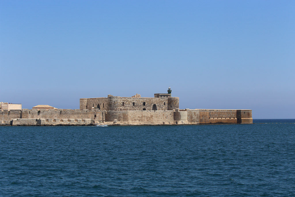 Castello Maniace (Syracuse)